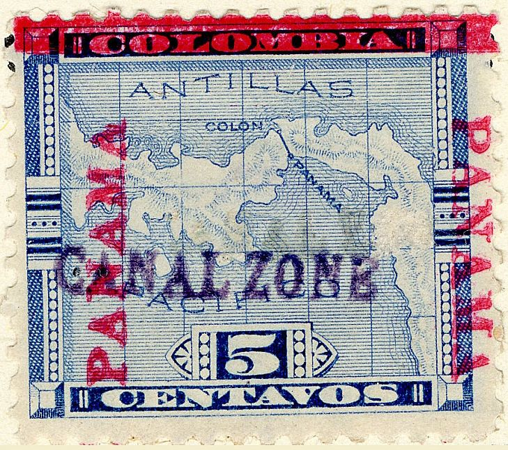 Canal Zone postage, over printed on Panama postage